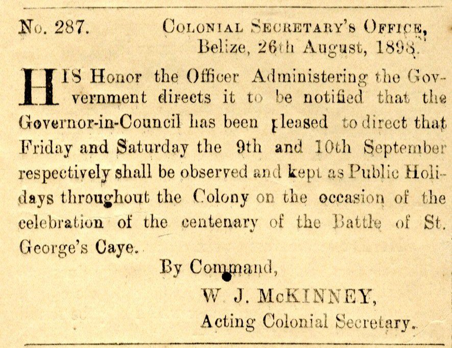 This is a clipping of 1898 Gazette which declared September 10th an official holiday. This was part of the efforts of the Centennial Committee.